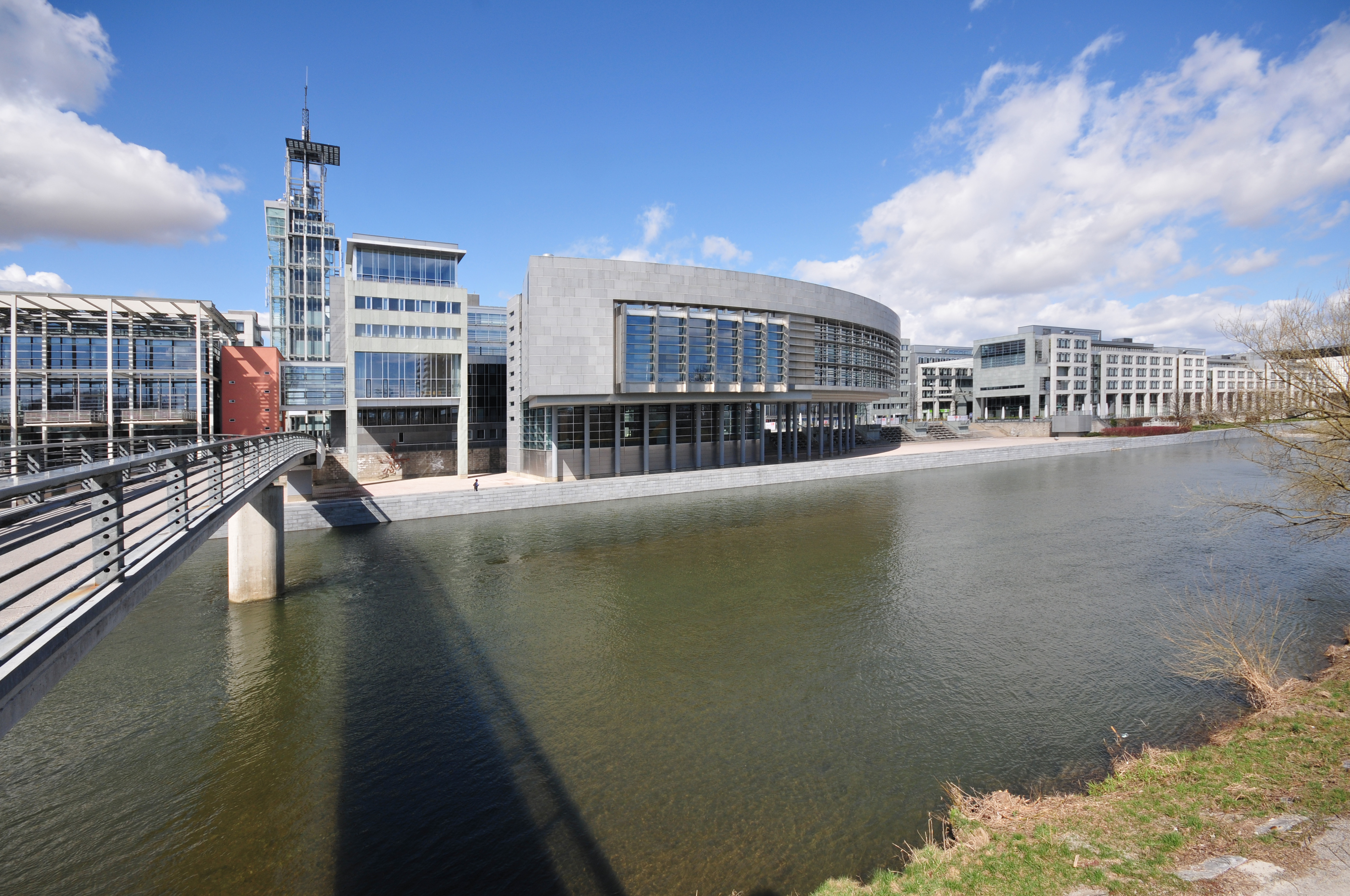 St. Pölten, Austria, Landhausviertel Fotowanderung St. Pölten 13. April 2013 in St. Pölten, Niederösterreich 50mm • Allgemeines • Bahnhof • Domplatz • Fahrräder • Landhausviertel • Rathausplatz